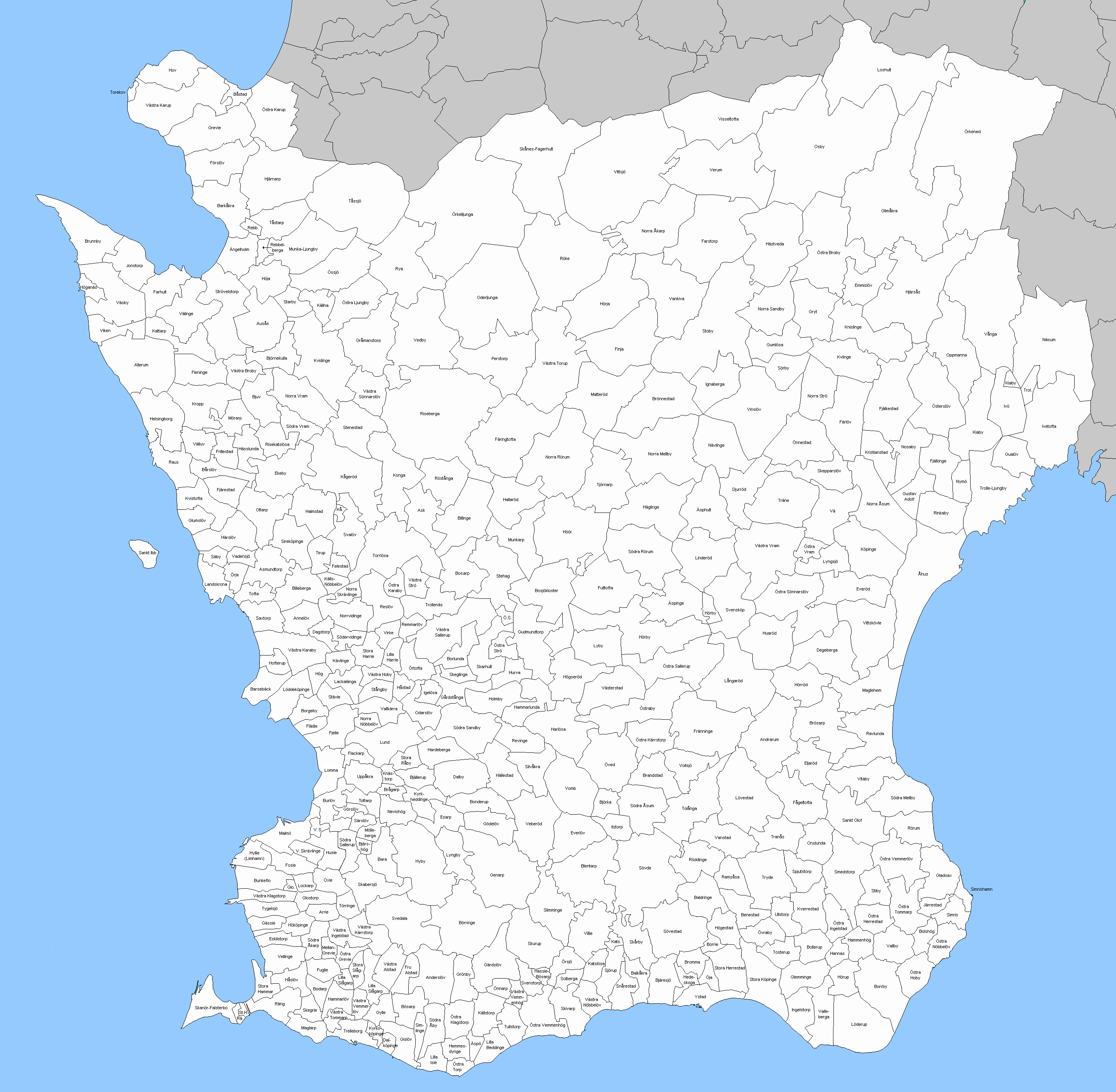 Socken in Skåne county